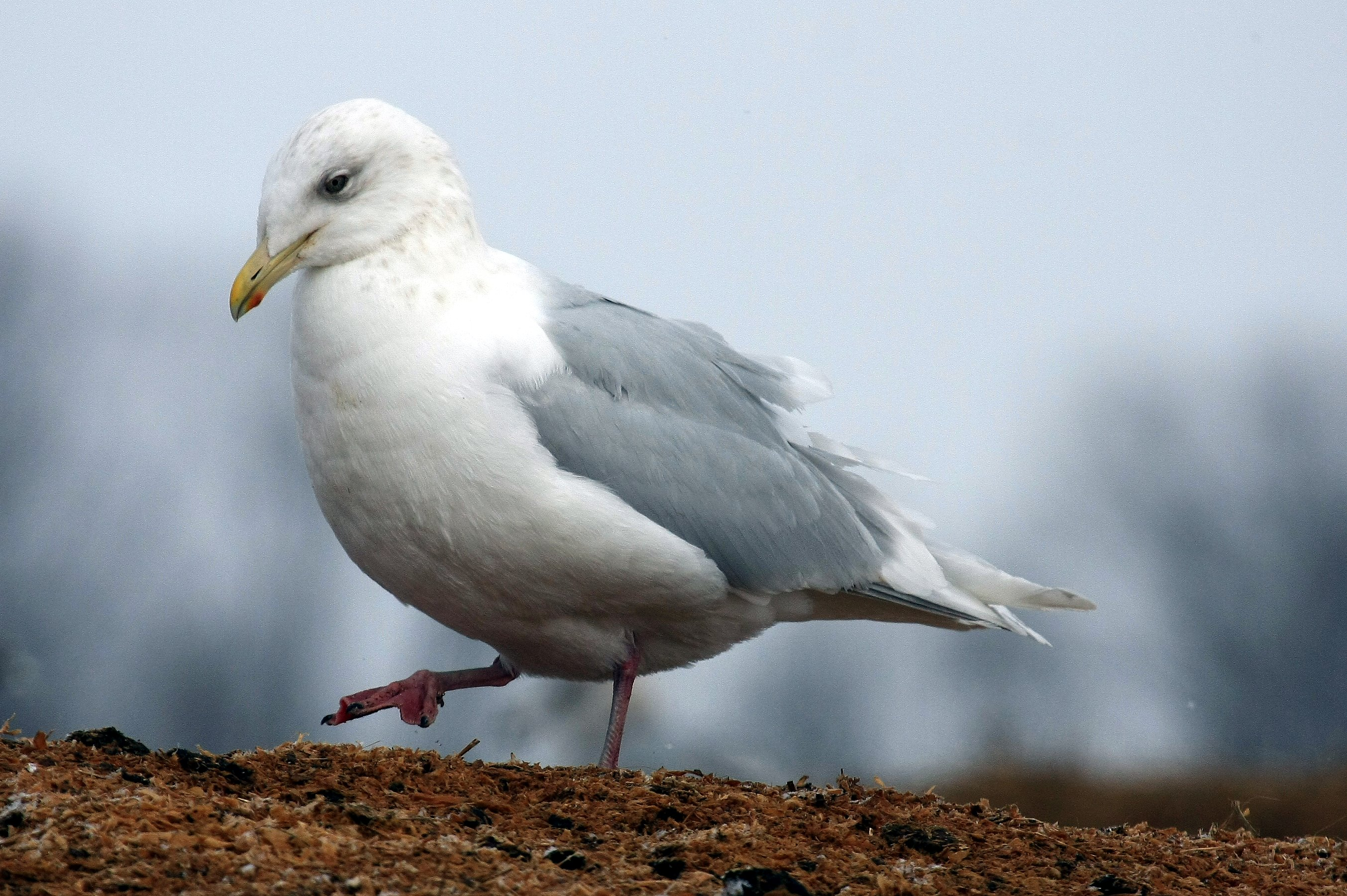 Larus glaucoides kumlieni adult, Cayuga Lake, Ithaca, New York, 42°26'47"N 76°26'26"W.